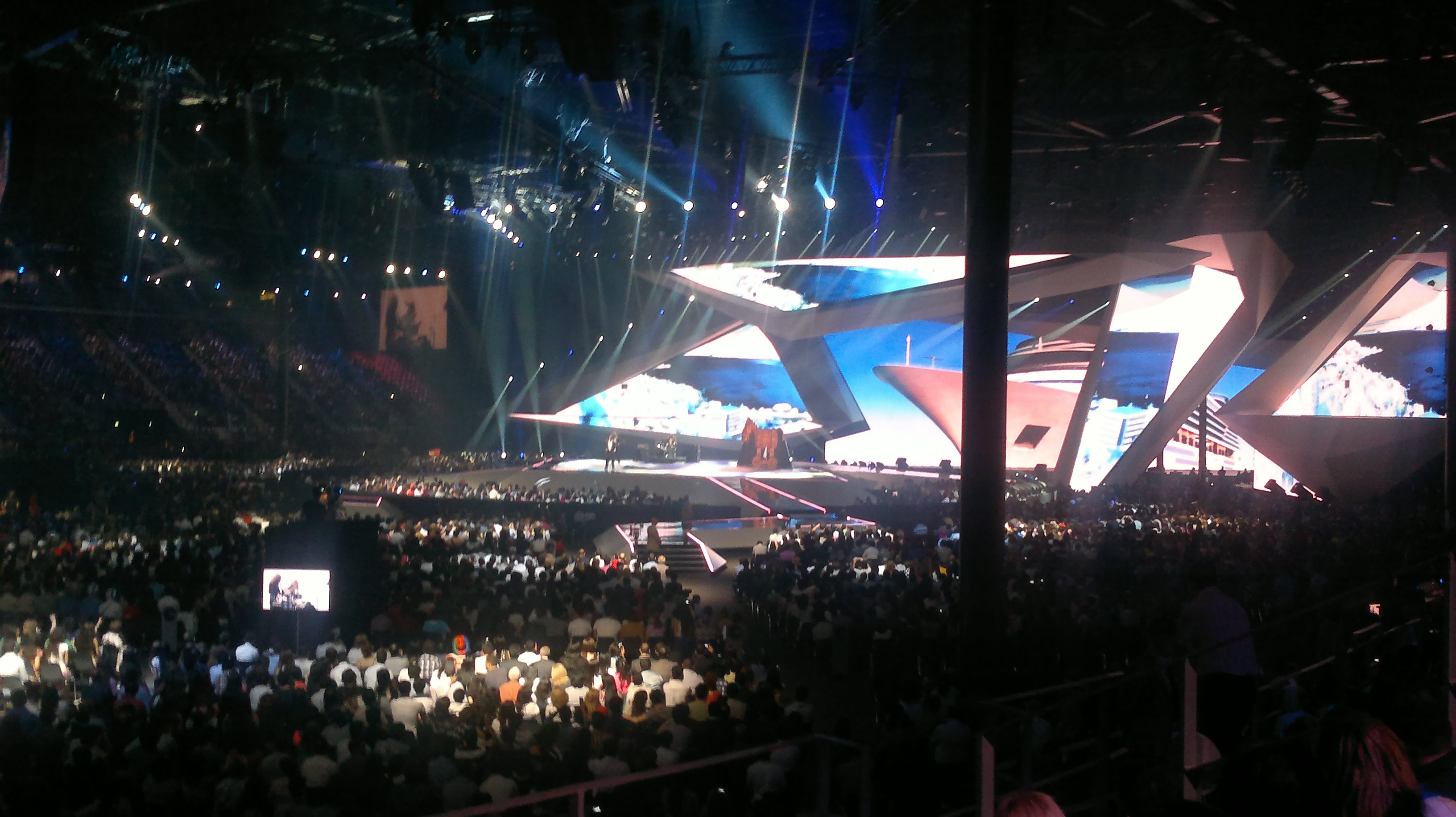 Rambo Amadeus with his "Euro Neuro" at Eurovision 2012, Semi-Final. Baku